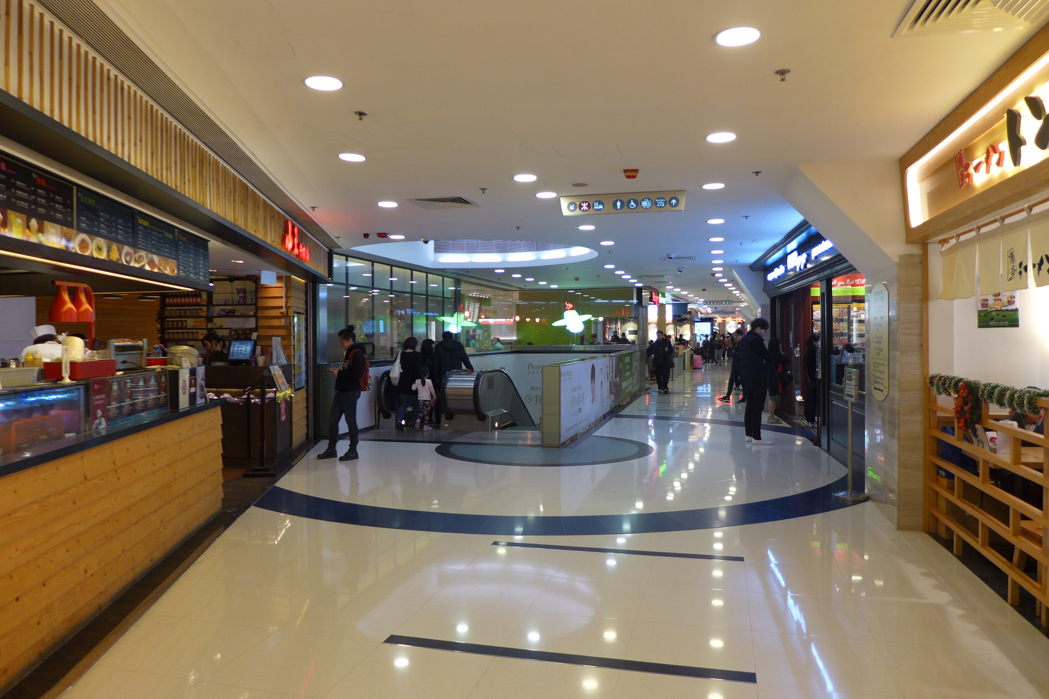 Citylink Upper level Restaurants